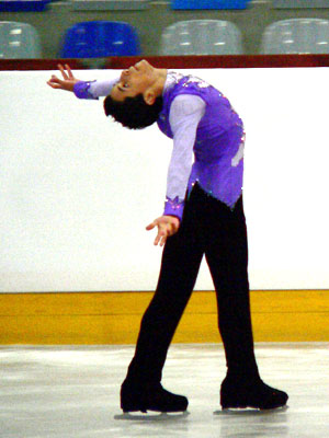 Eliot Halverson during his short program at the 2006 Junior Grand Prix event in The Hague, Netherlands